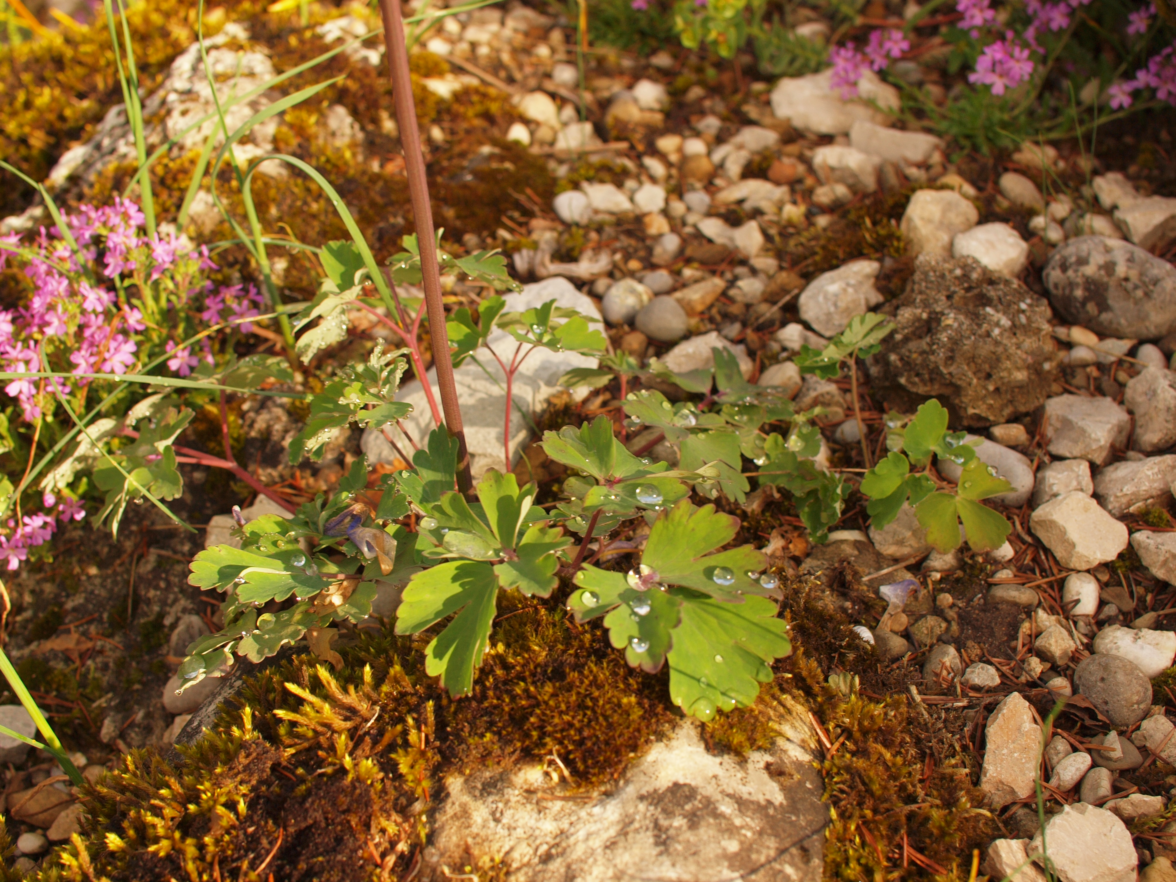 Dinaric columbine, foliage